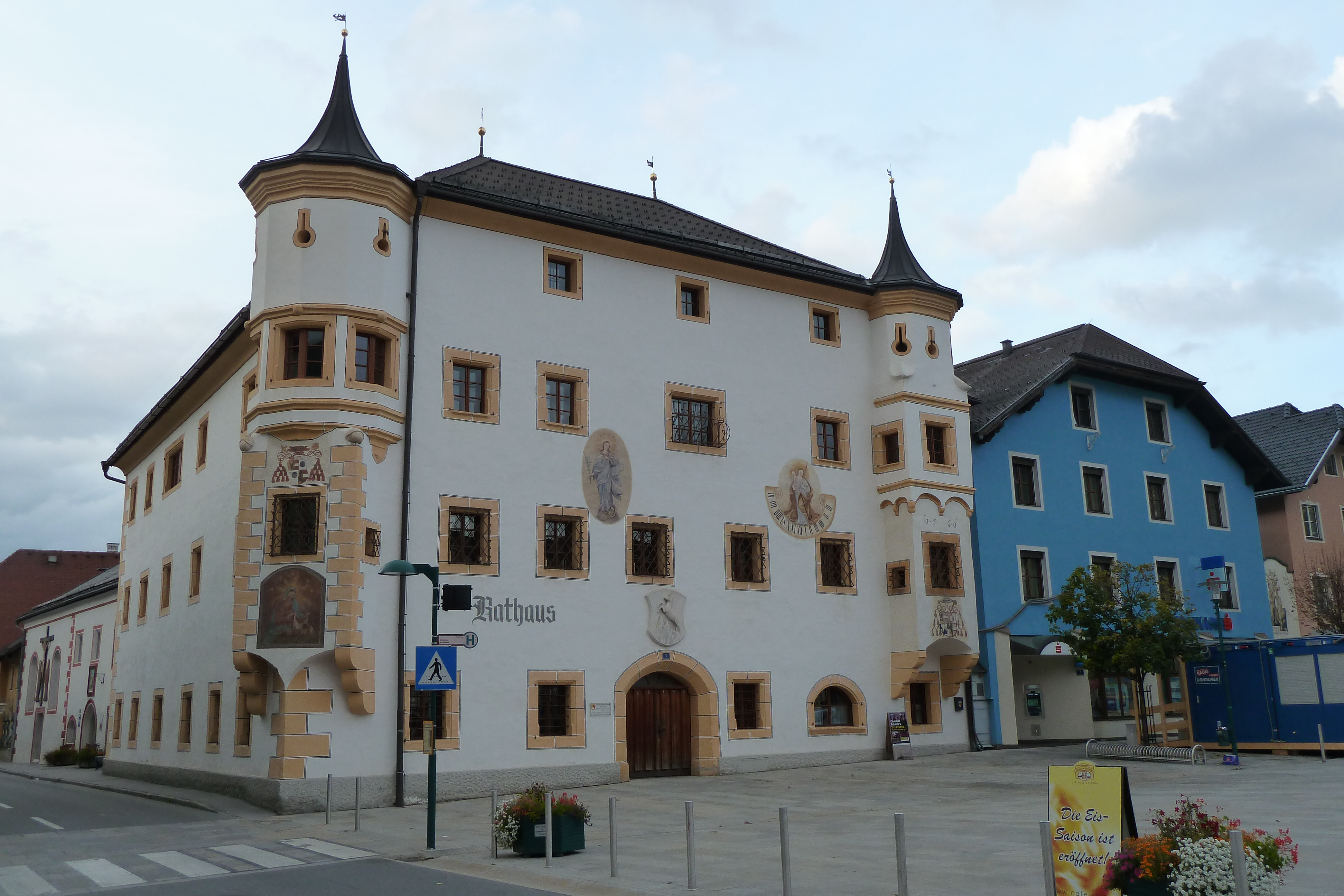 Rathaus Tamsweg, Aufgenommen am 30. September 2012